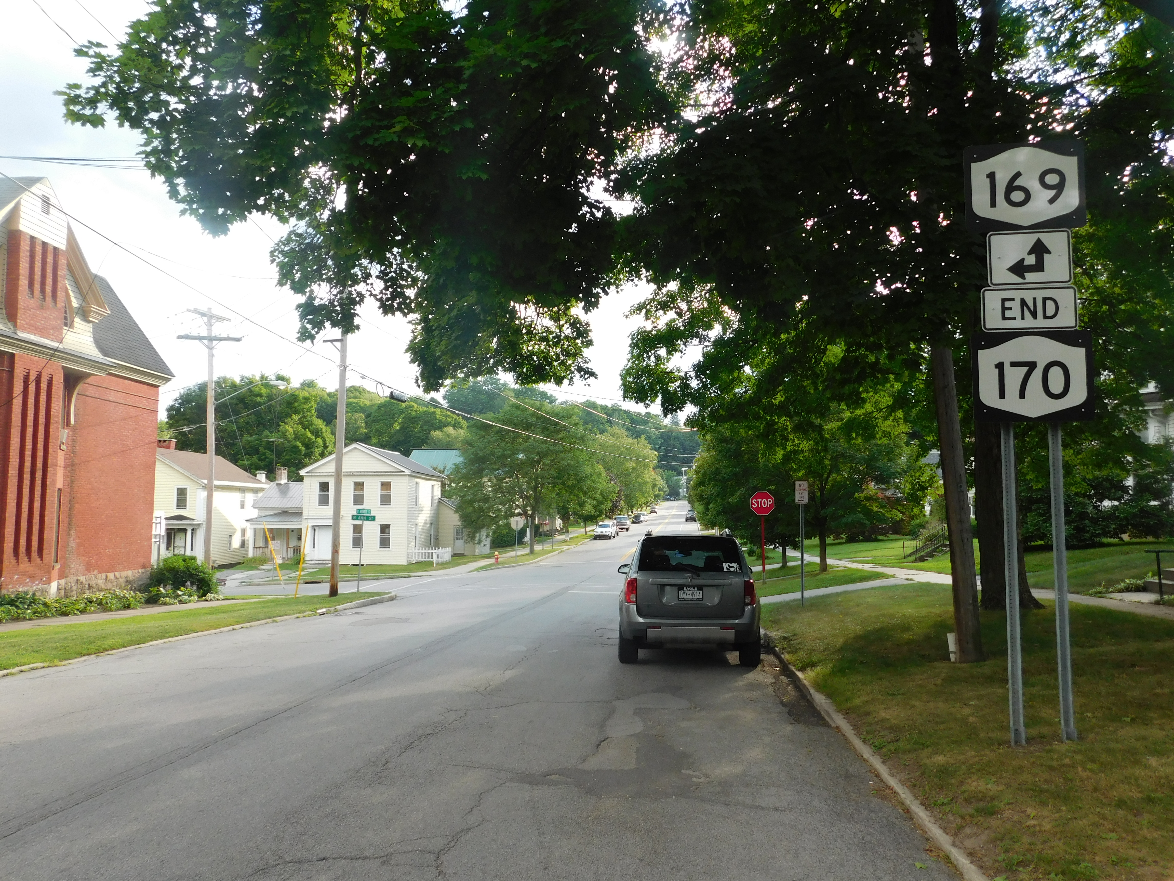 New York State Route 170 approach its end at New York State Route 169 in Little Falls, New York.